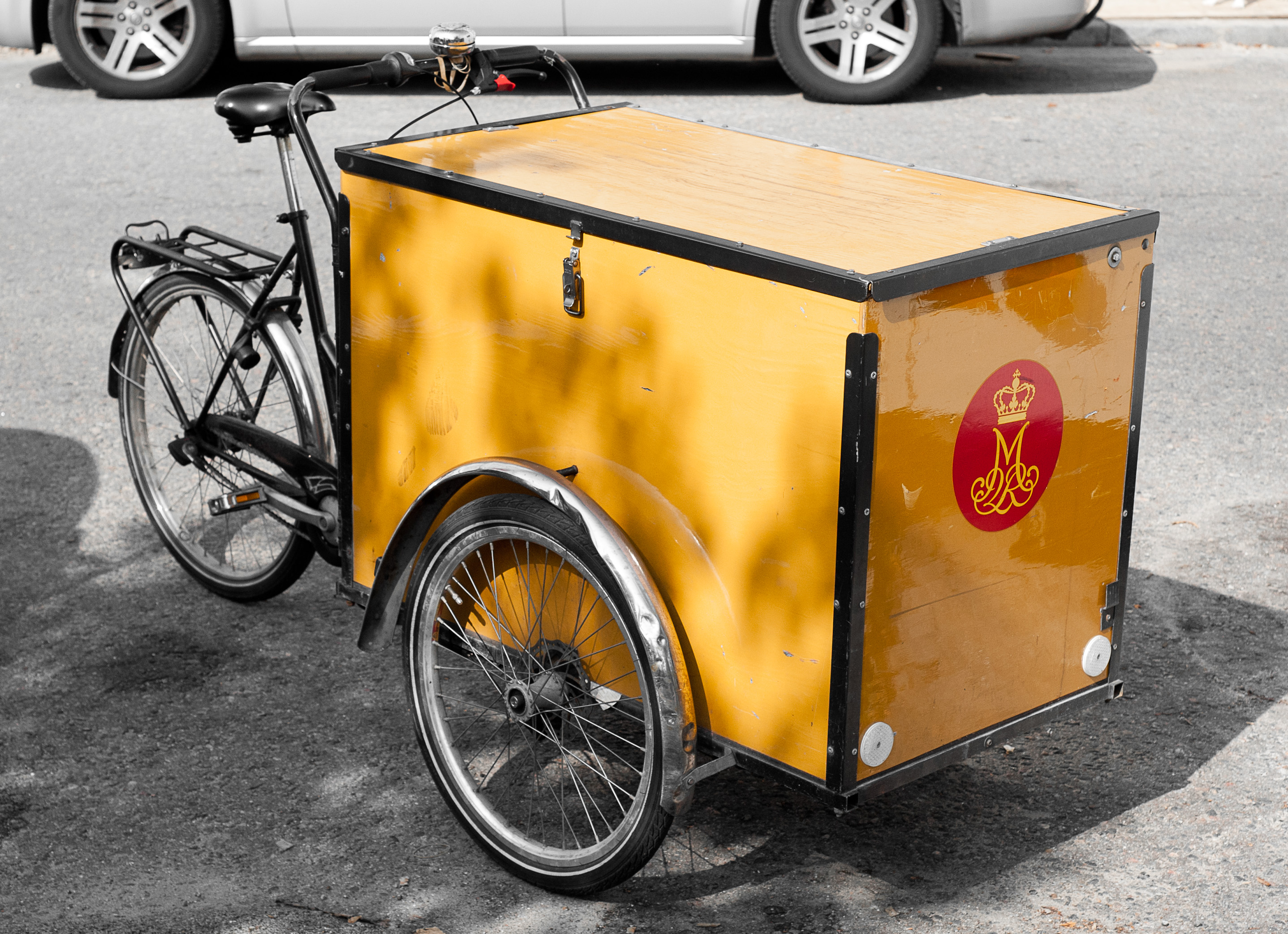 Traditional cargo bicycle used by national postal company Post Danmark to deliver consumer mail